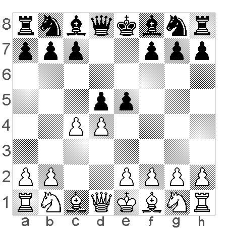 chess diagram Albin counter gambit Source: CBlight + my processing